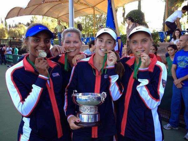 USA team, winners of the 2014 junior Fed Cup in San Luis Potosí, Mexico. From left to right : Tornado Alicia Black, Kathy Rinaldi (captain), CiCi Bellis and Sofia Kenin.